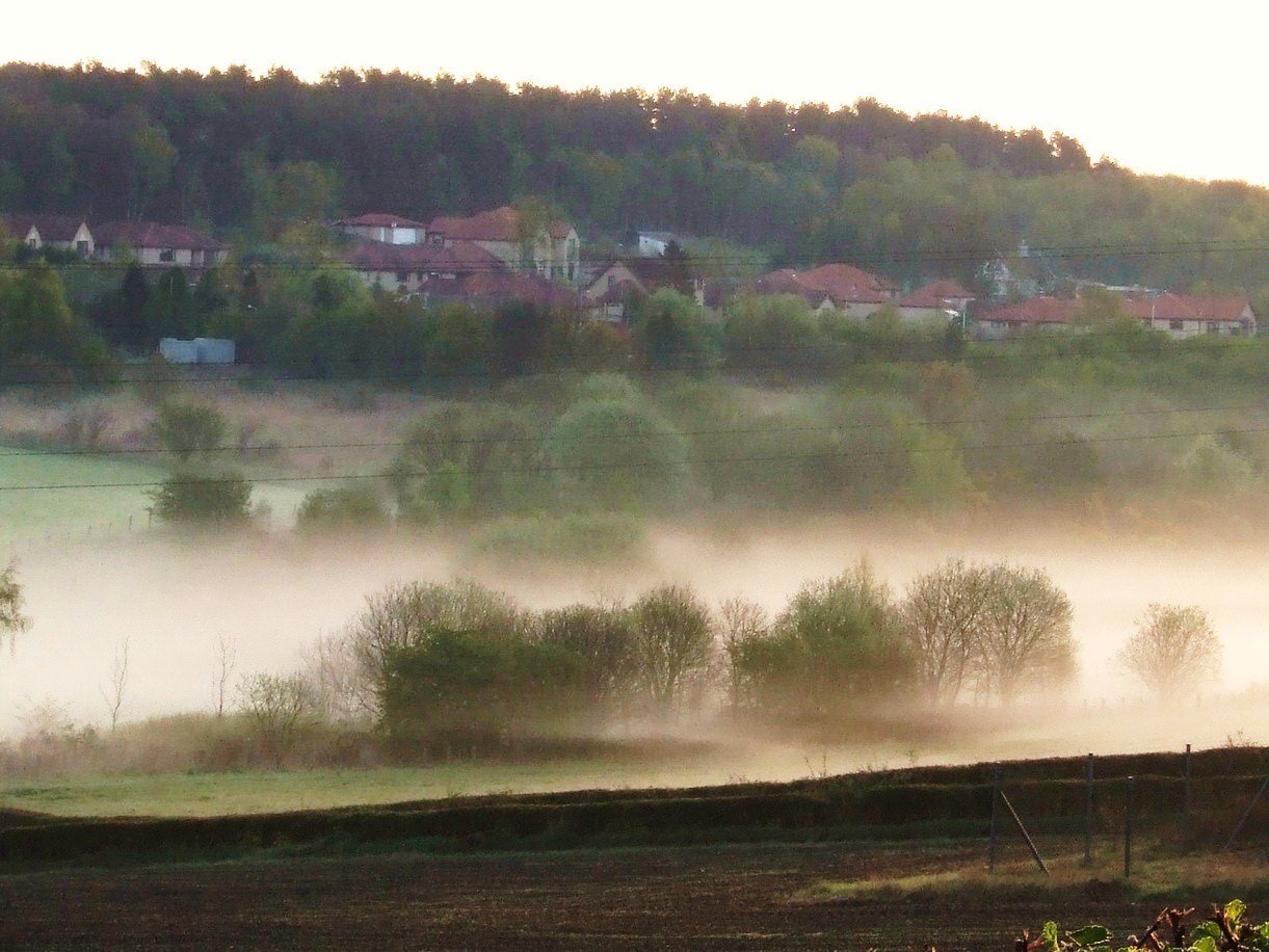 Townhill, located near Dunfermline on a misty morning.